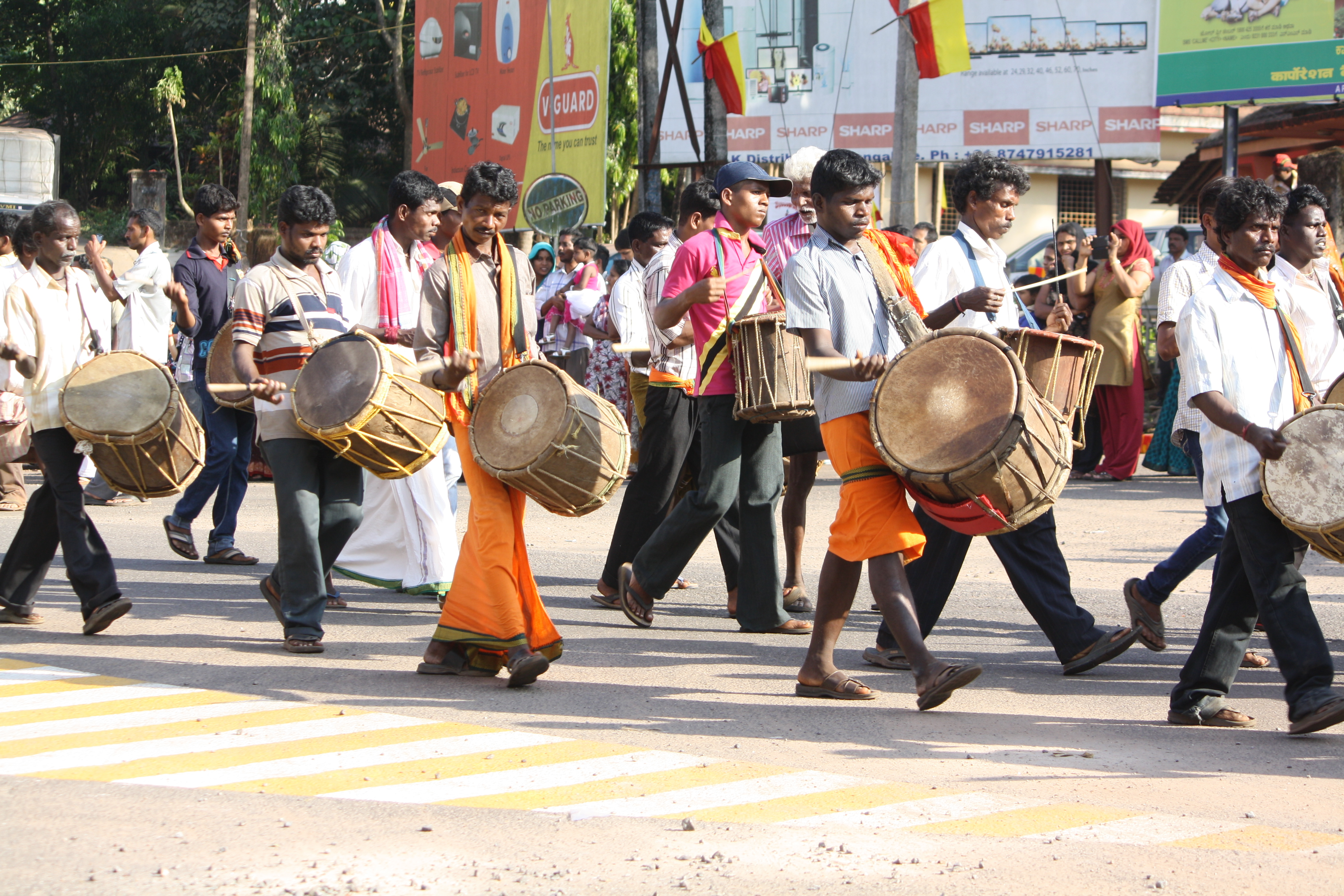 Dollu Kunitha, a kind of folk performance from Karnataka, India ಕನ್ನಡ: ಕರ್ನಾಟಕದ ಜಾನಪದ ಕಲೆ ಡೊಳ್ಳು ಕುಣಿತ